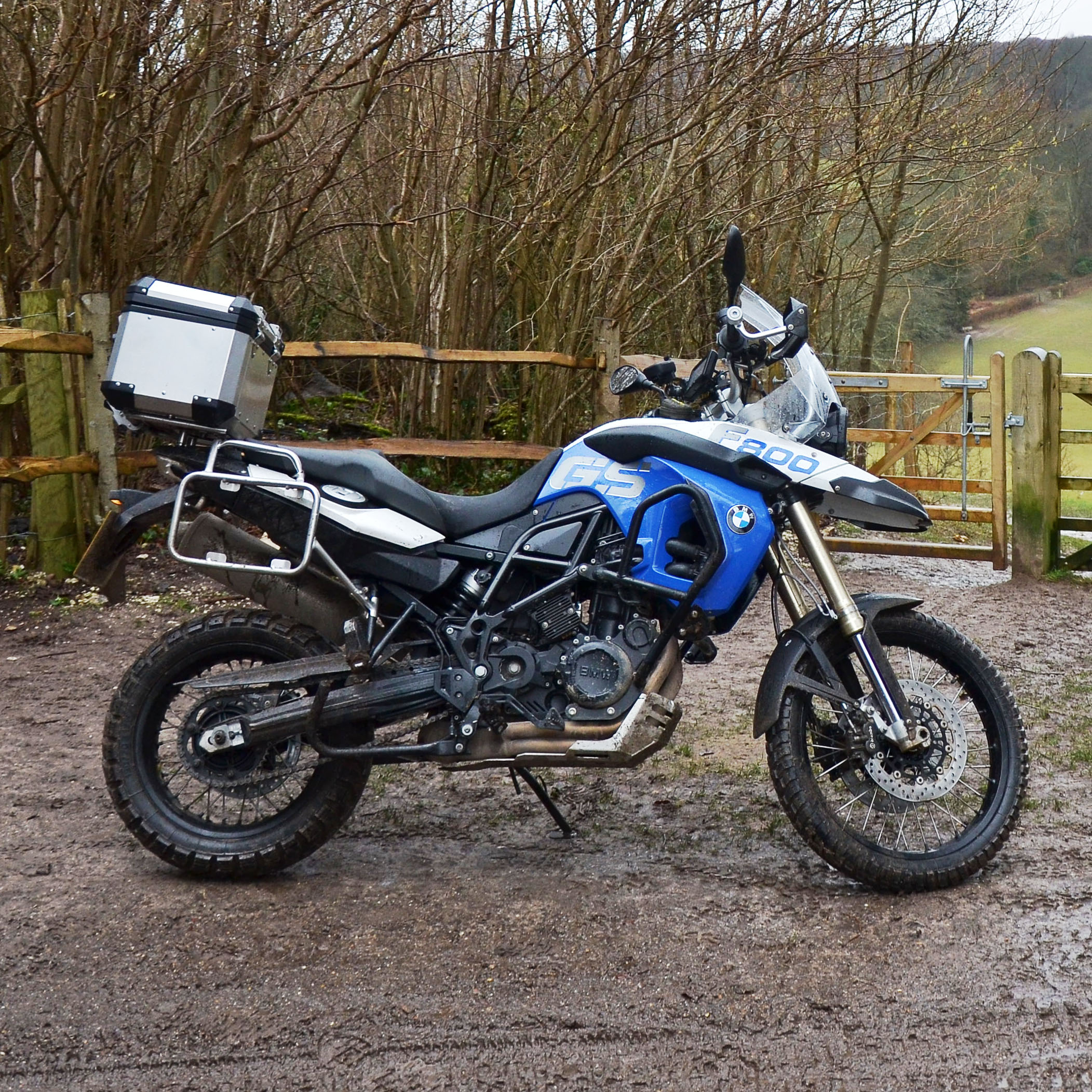 2012 F800GS Trophy on byway next to field